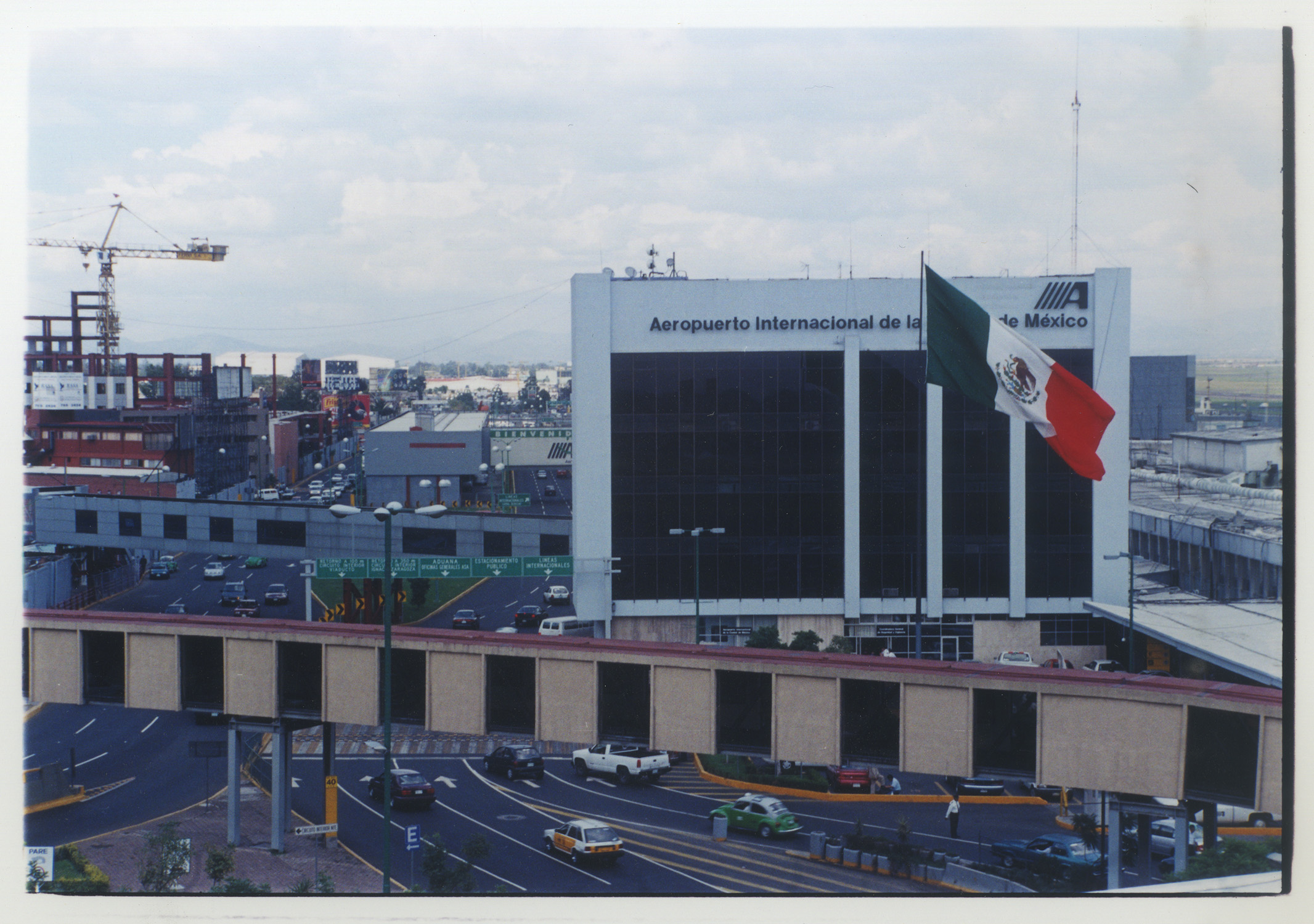 Mexico City International Airport during the 90s.